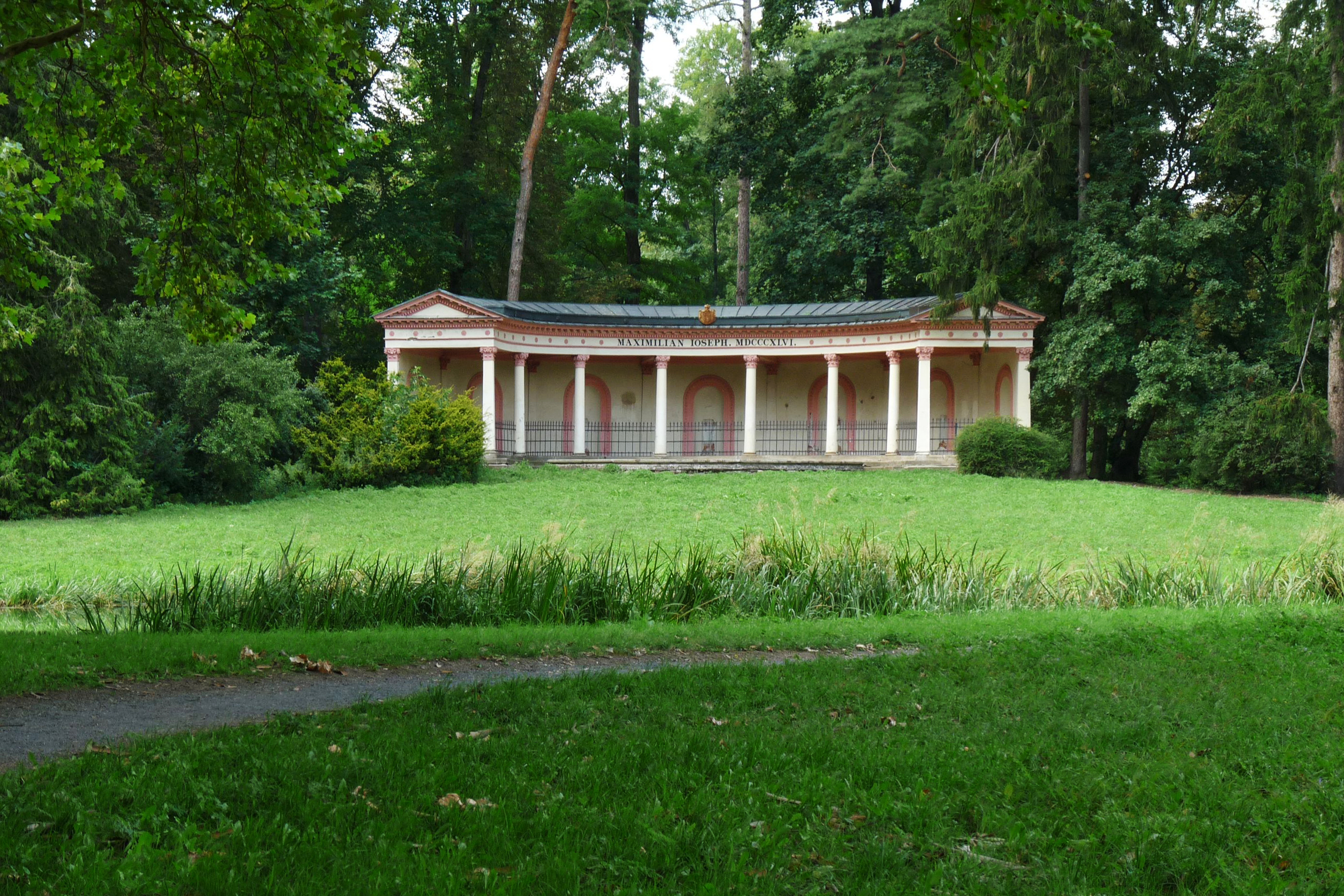 Podzámecká Garden in the town of Kroměříž, Zlín Region, Czech Republic.